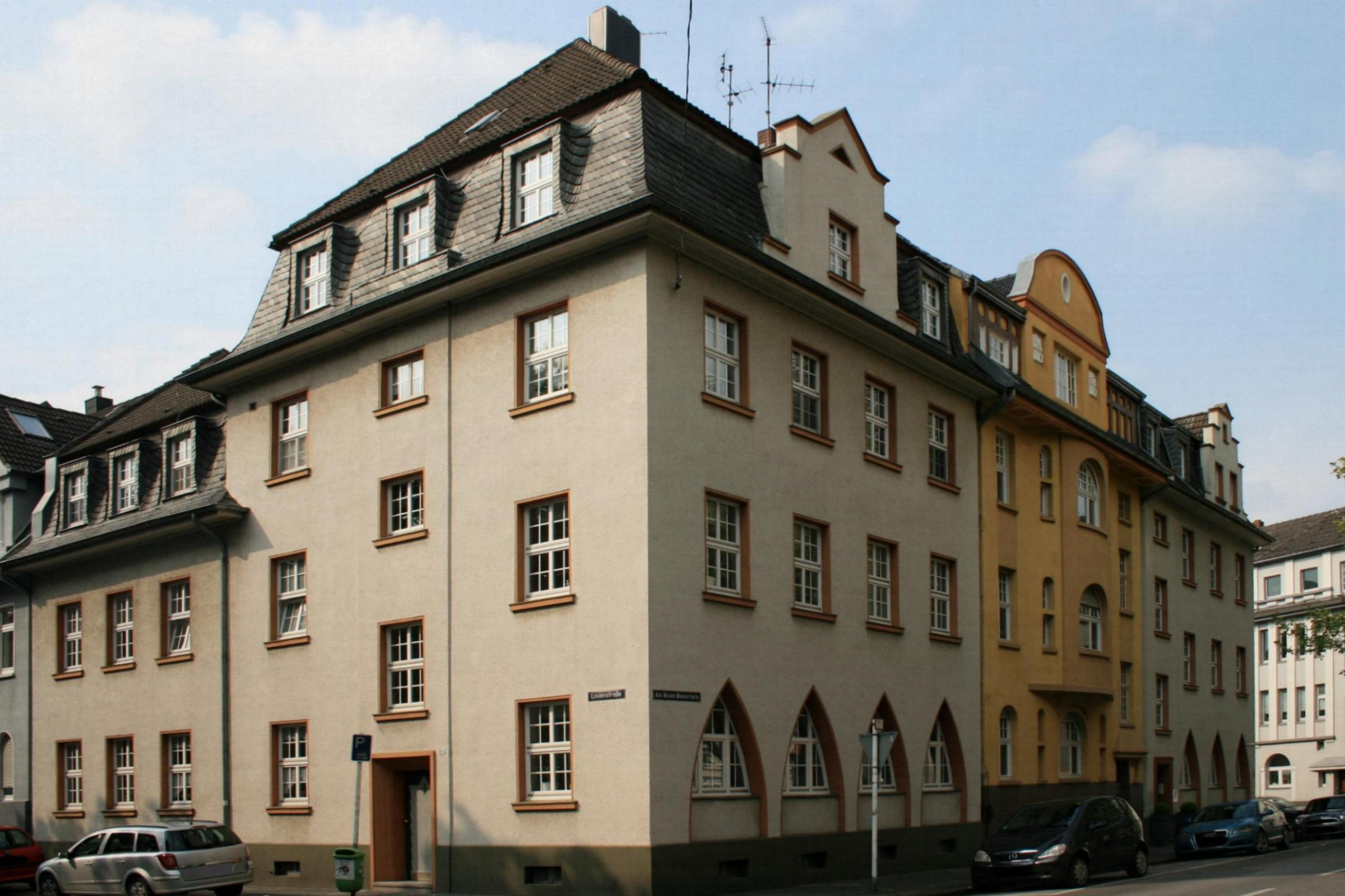 Cultural heritage monument No. L 034 in Mönchengladbach